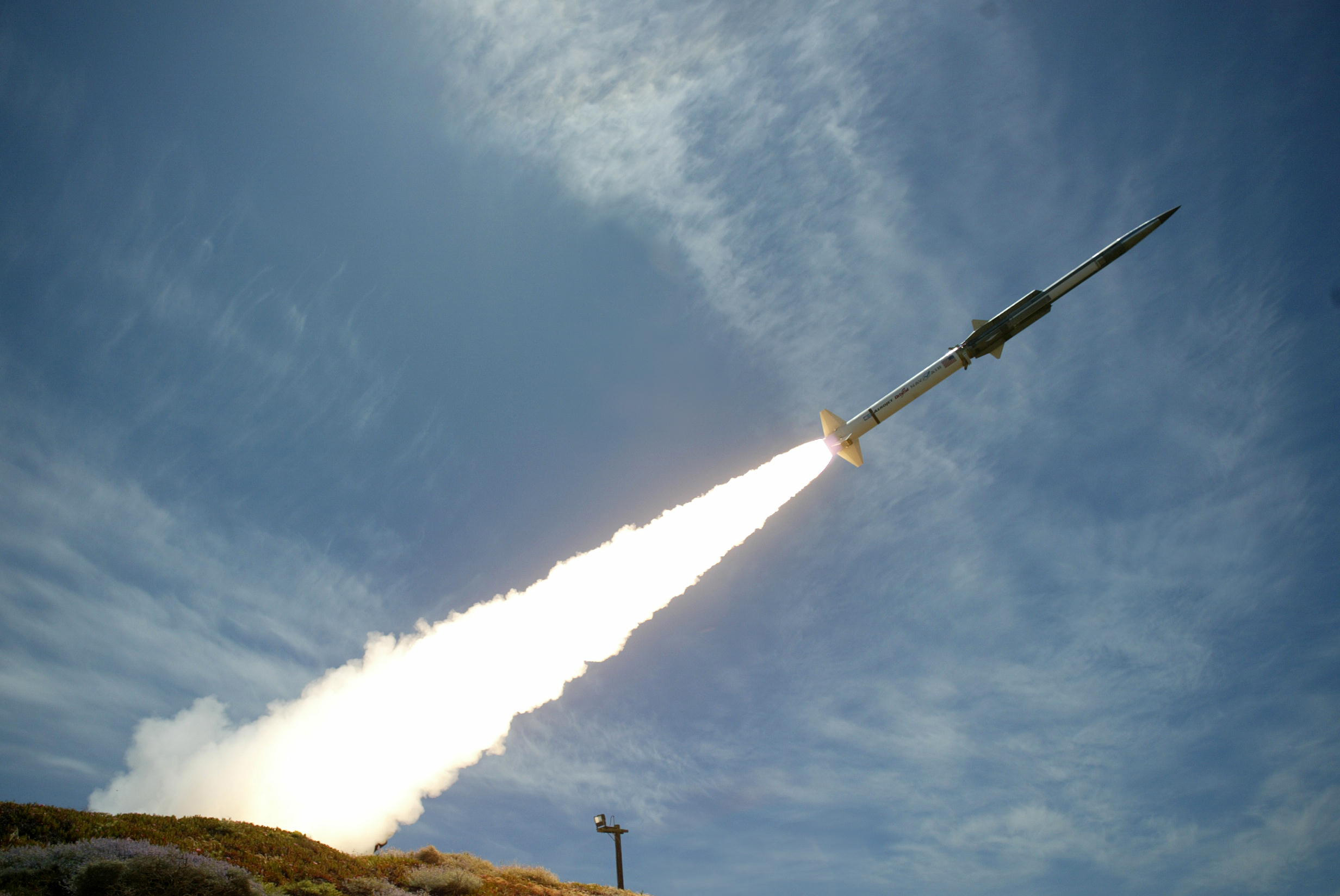 The GQM-163A Coyote Supersonic Sea-Skimming Target test launch in May 2004.